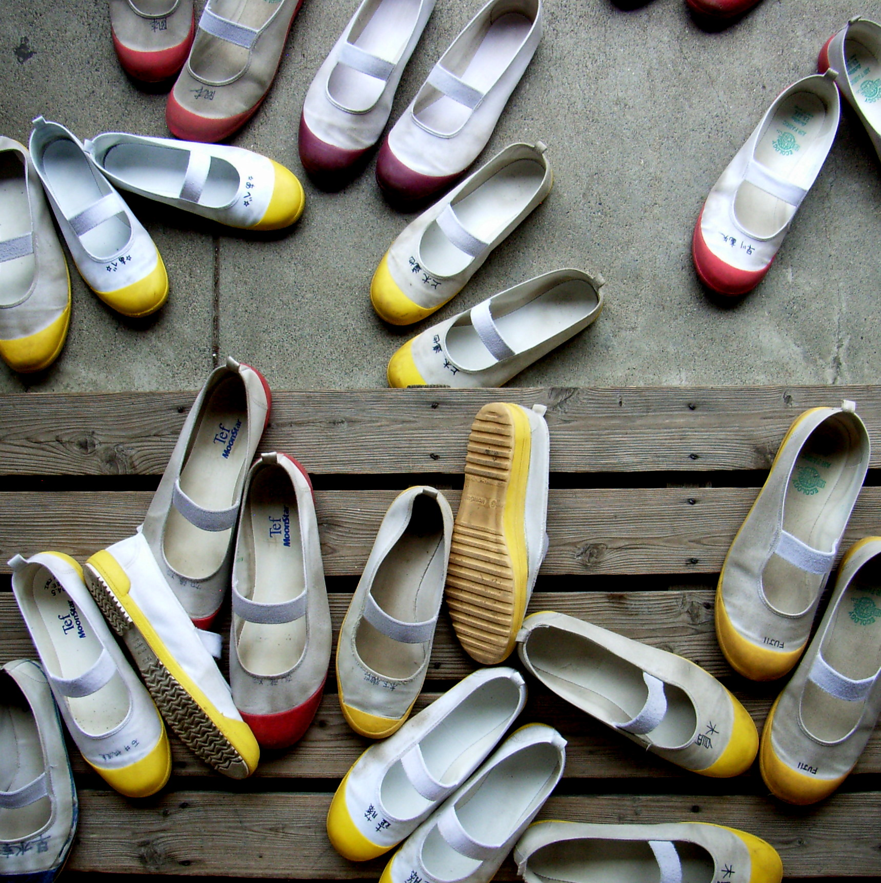 Uwabaki at a Japanese junior high school.